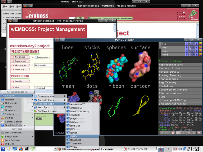 Screen Shot of BioSLAX